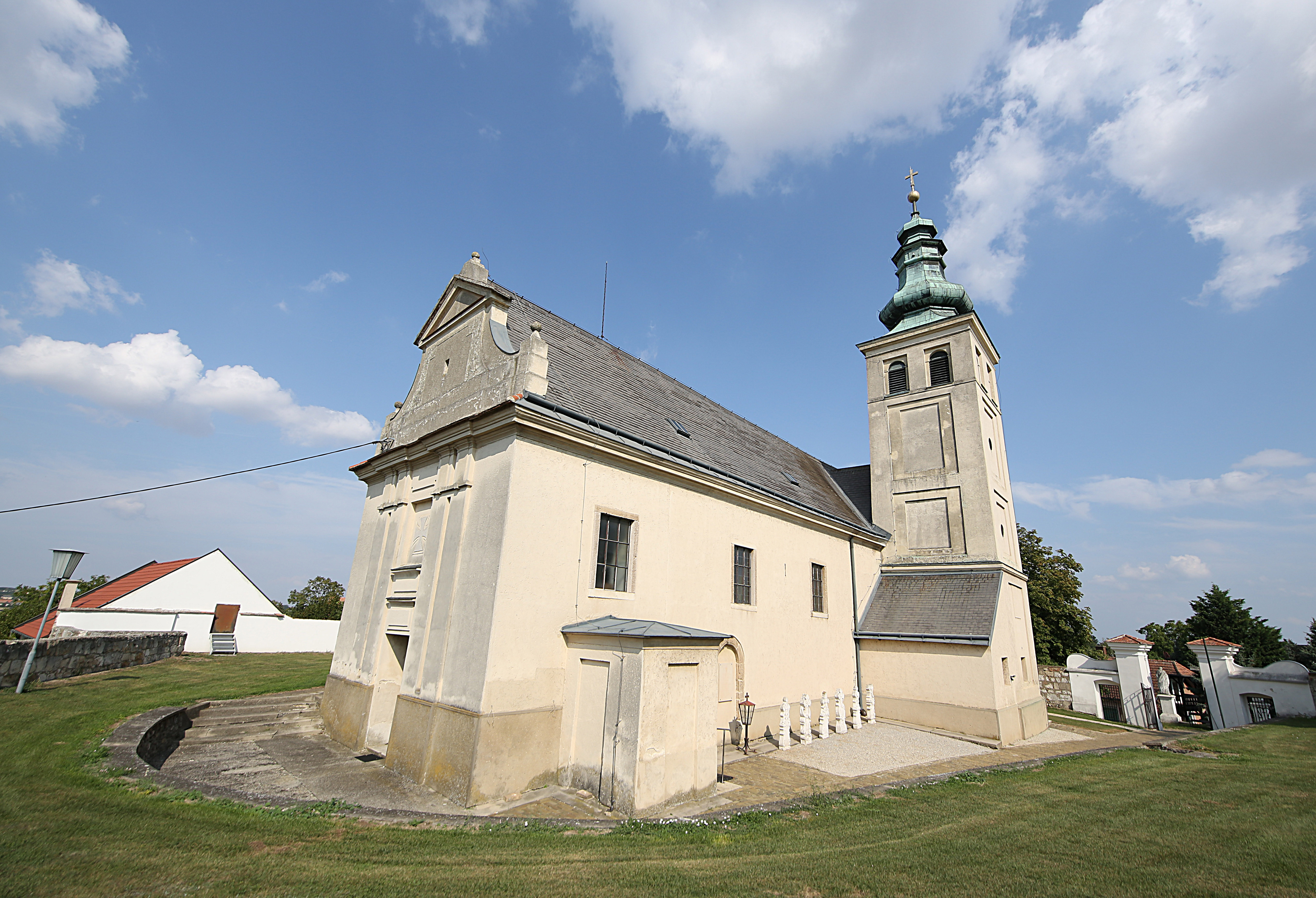 Catholic parish church at Palterndorf, municipality Palterndorf-Dobermannsdorf, Lower Austria, Austria